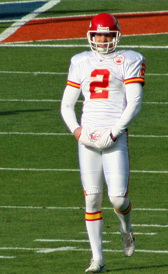 Dustin Colquitt, a player on the Kansas City Chiefs American football team.